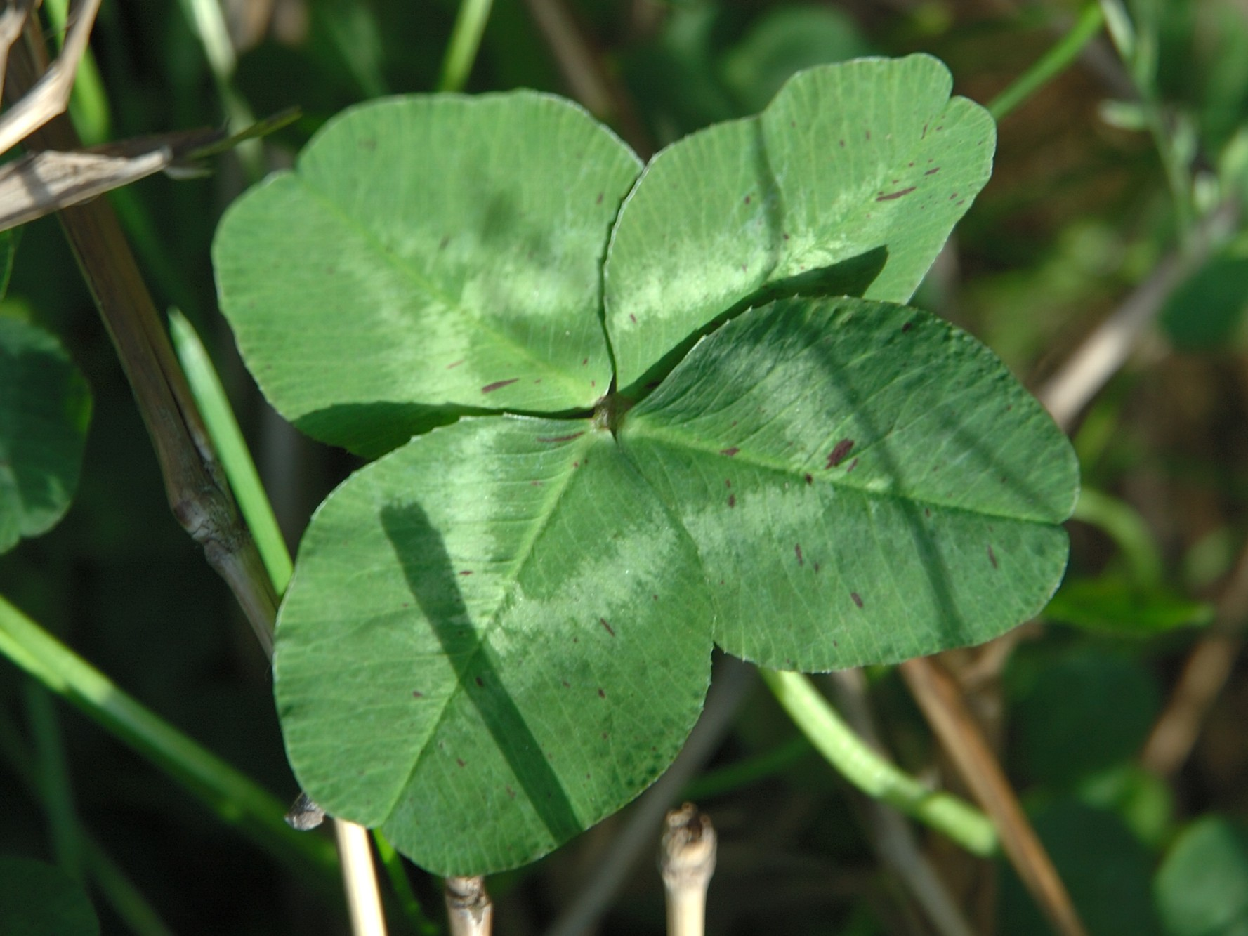 Four-leaf clover (Four-leaf clover,クローバー)